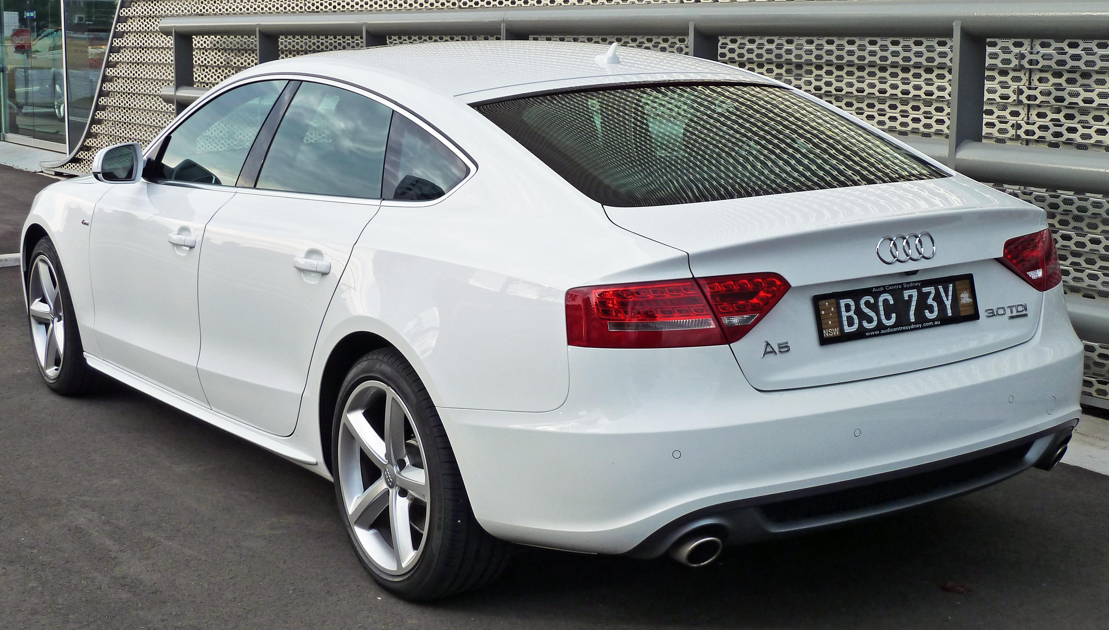 2010 Audi A5 (8T) 3.0 TDI quattro Sportback. Photographed at the Audi Centre Sydney, Zetland, New South Wales, Australia.